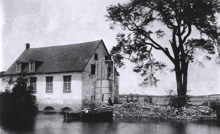 Watermill in Saint-Eustache, Quebec, 1914